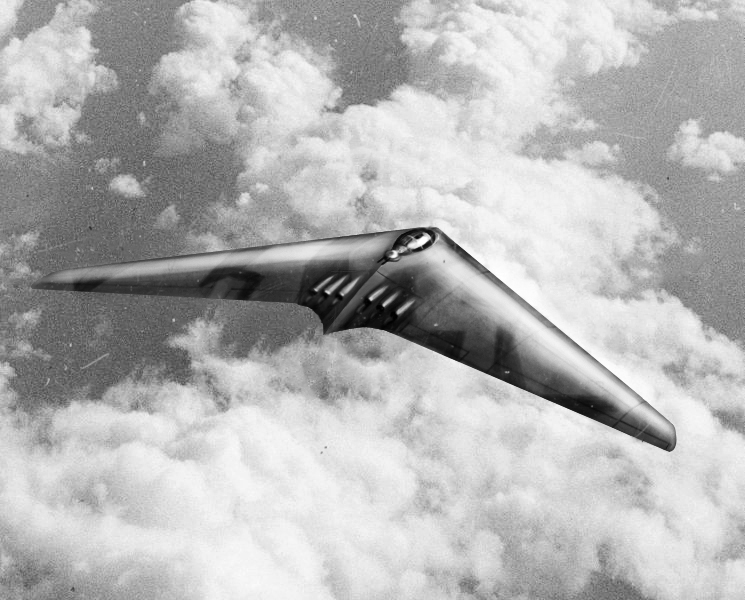 proposed Horten H XVIII flying Horten H XVIII im Flug